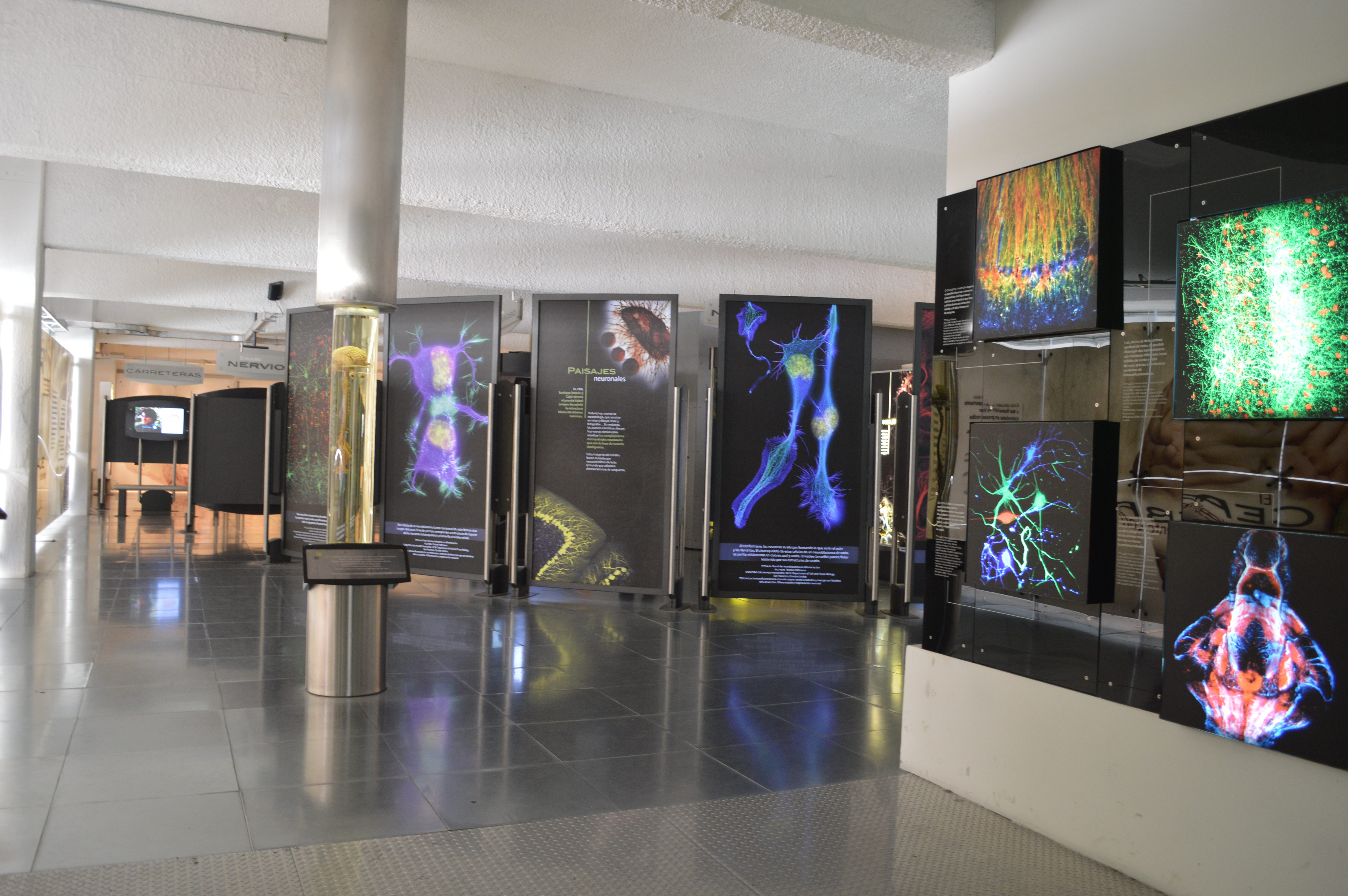 Entrance to exhibit on the human brain at Universum in Ciudad Universitaria in Mexico City